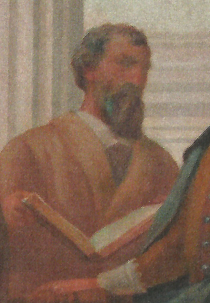 "Portuguese Medicine" (c. 1906), by Veloso Salgado